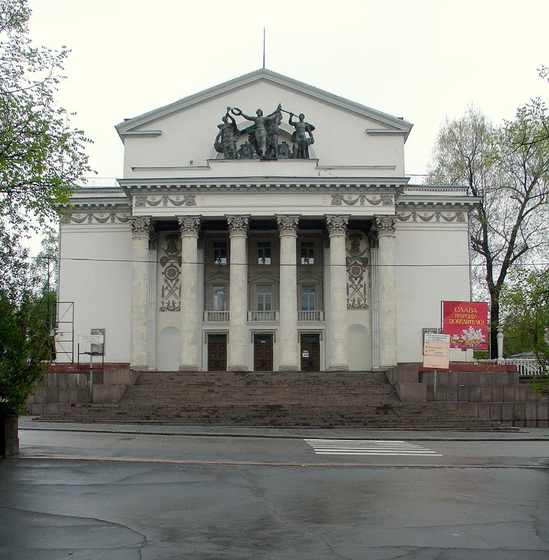 Moscow, Zhuravleva Square, Preobrazhenskoye District. This stalinist theater is actually a rebuilt 1904 art nouveau theater - here's the original view Image:Moscow, Vvedenskaya Square, Narodny Dom, by Ivanov-Schitz, 1904.jpg